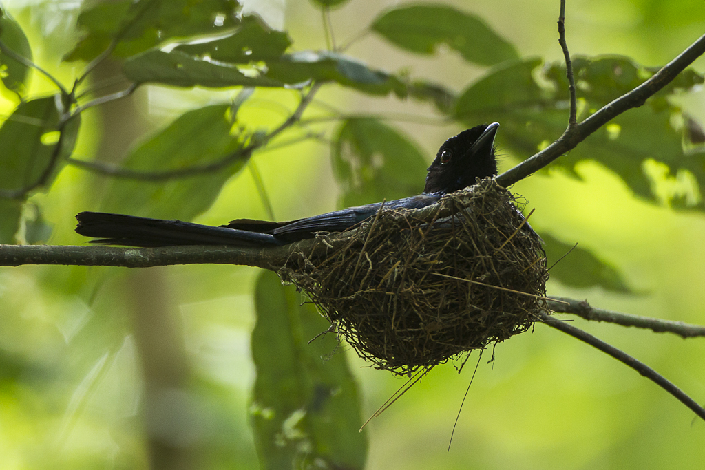 Lesser Racket-tailed Drongo at nest - Kang Kra Chan - Thailand_S4E4944